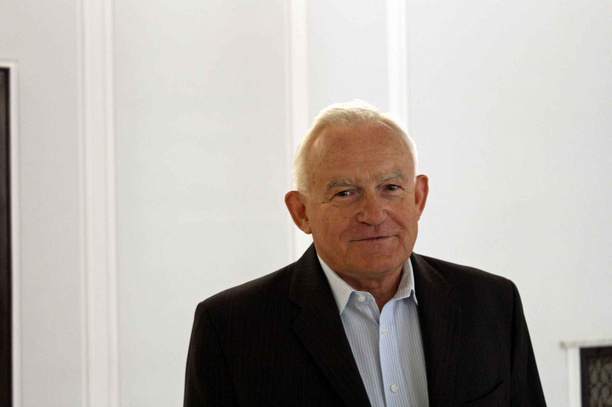 Leszek Miller, 2013. If you want to use this picture, please implement the link on the website containing the picture.